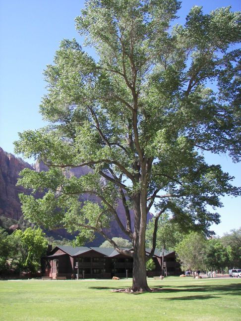 Fremont Cottonwood at Zion Lodge